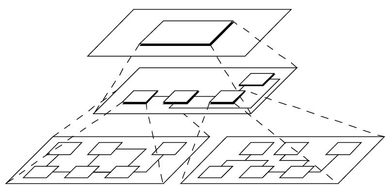 13 The Partitions Manage Design Complexity